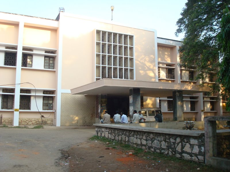 opd block of vssmc.